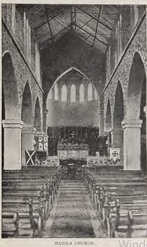 First anglican church building on Tanganyika mainland